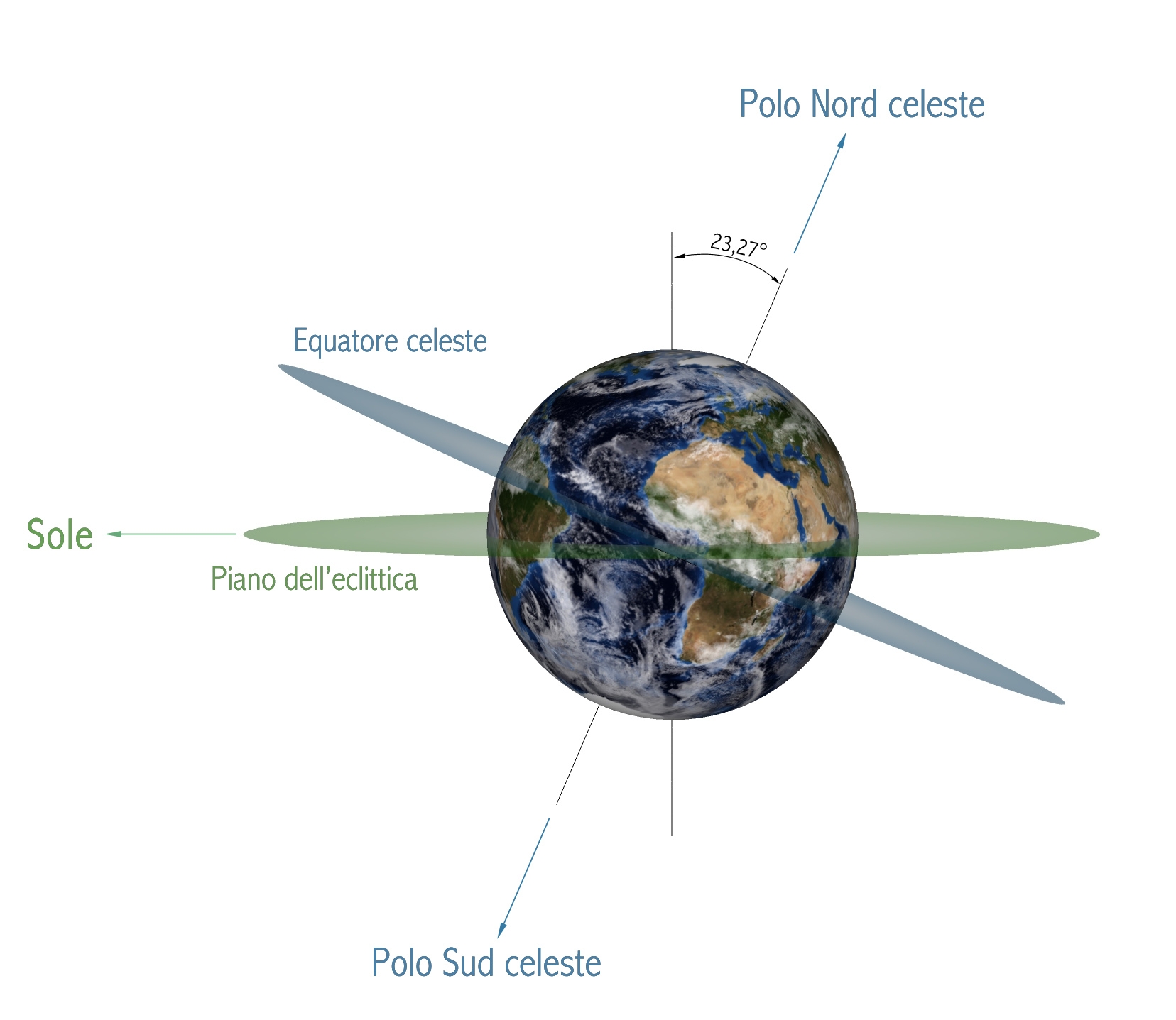 Axial tilt of Earth, with ecliptic plane and celestial equator.